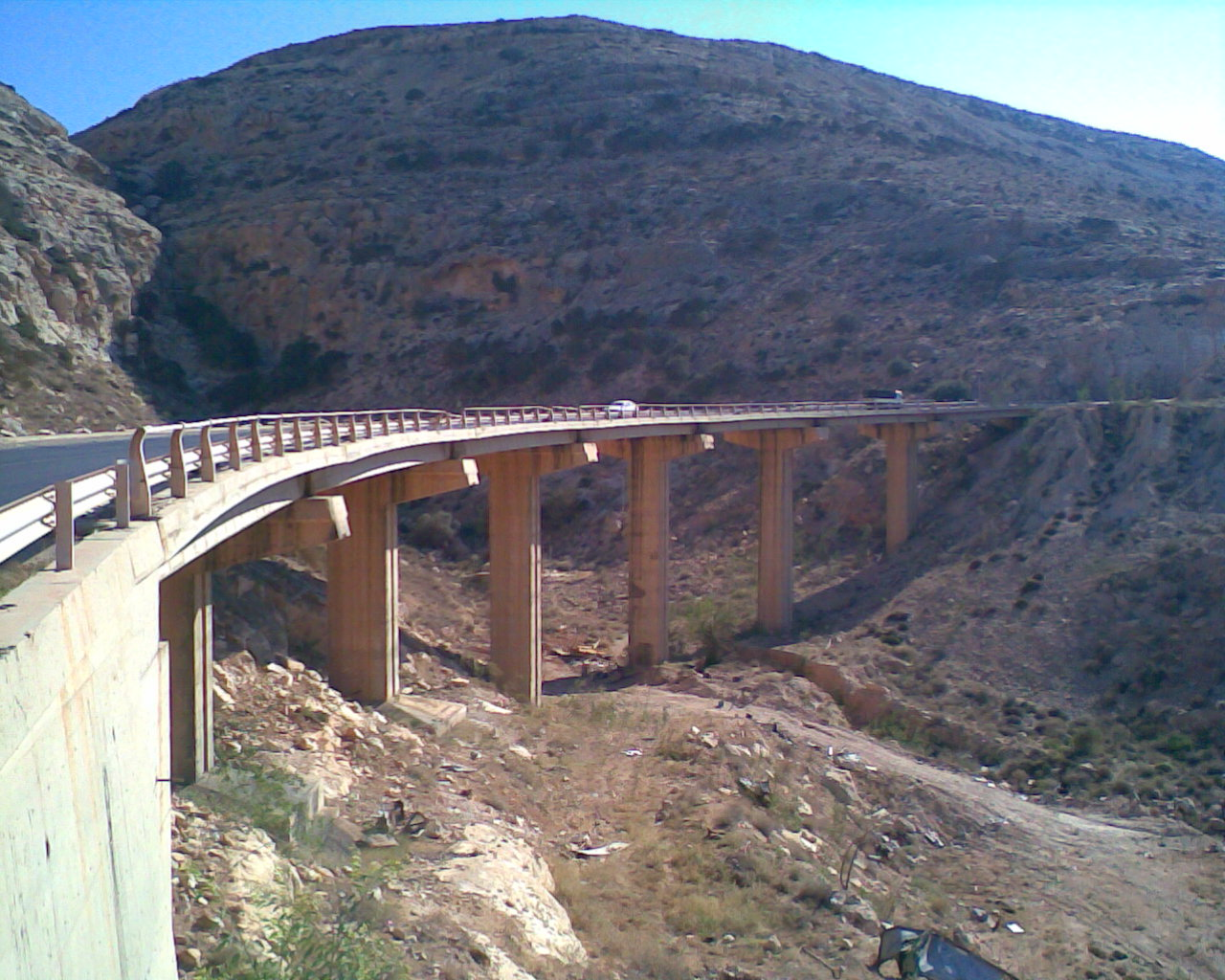 A bridge at the escarpment near the western gateway of the Libyan city of Derna.